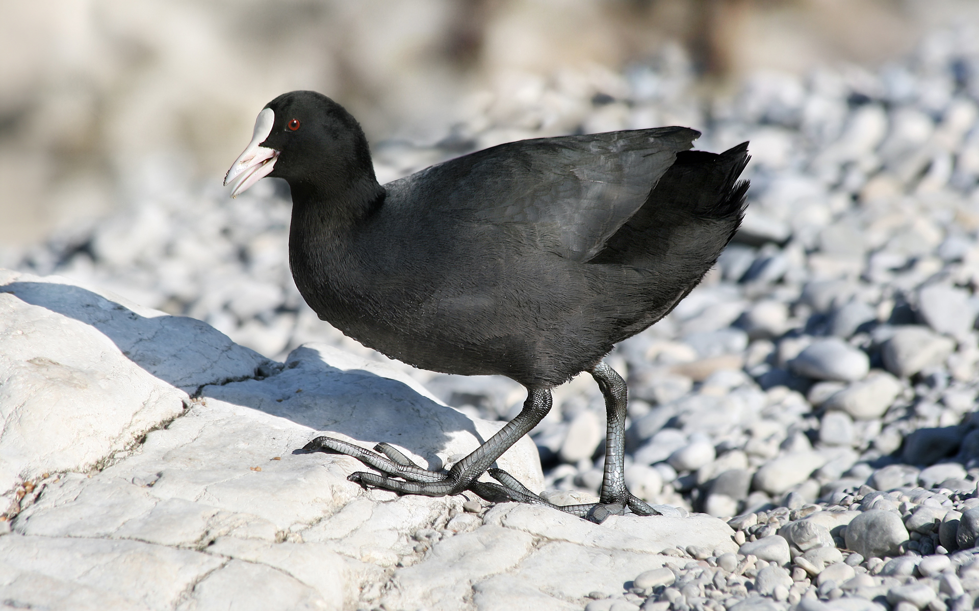 Description: The Eurasian Coot Fulica atra, or known as Coot, is a member of the rail and crake bird family, the Rallidae.